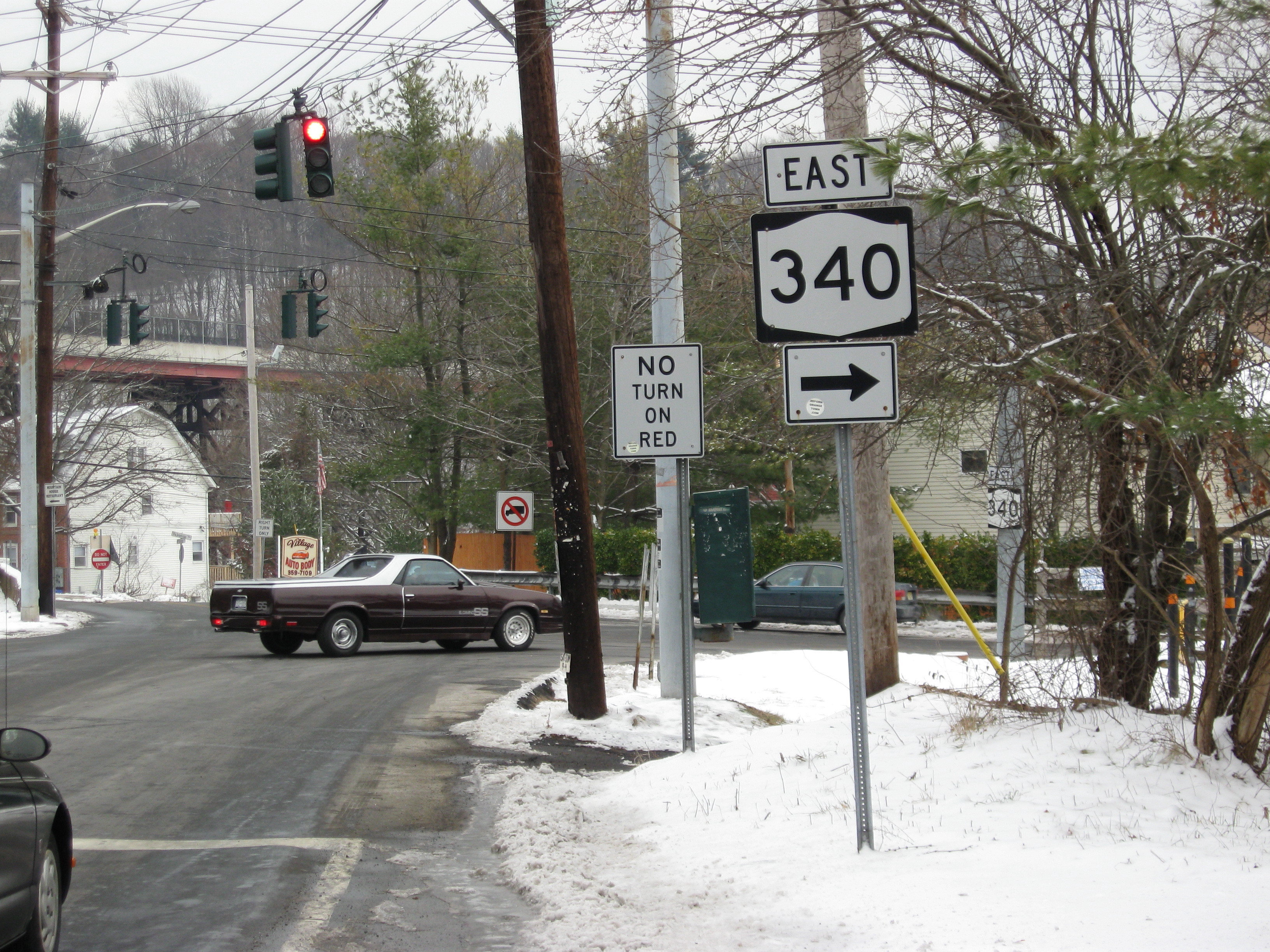 New York State Route 340 approaches a sharp turn to the right in Sparkill, New York. Contrary to the sign, the turn is just after this traffic signal, which is for Rockland County Road 8, the northbound on-off ramp to U.S. Route 9W, and part of the the Joseph B. Clarke Rail Trail.